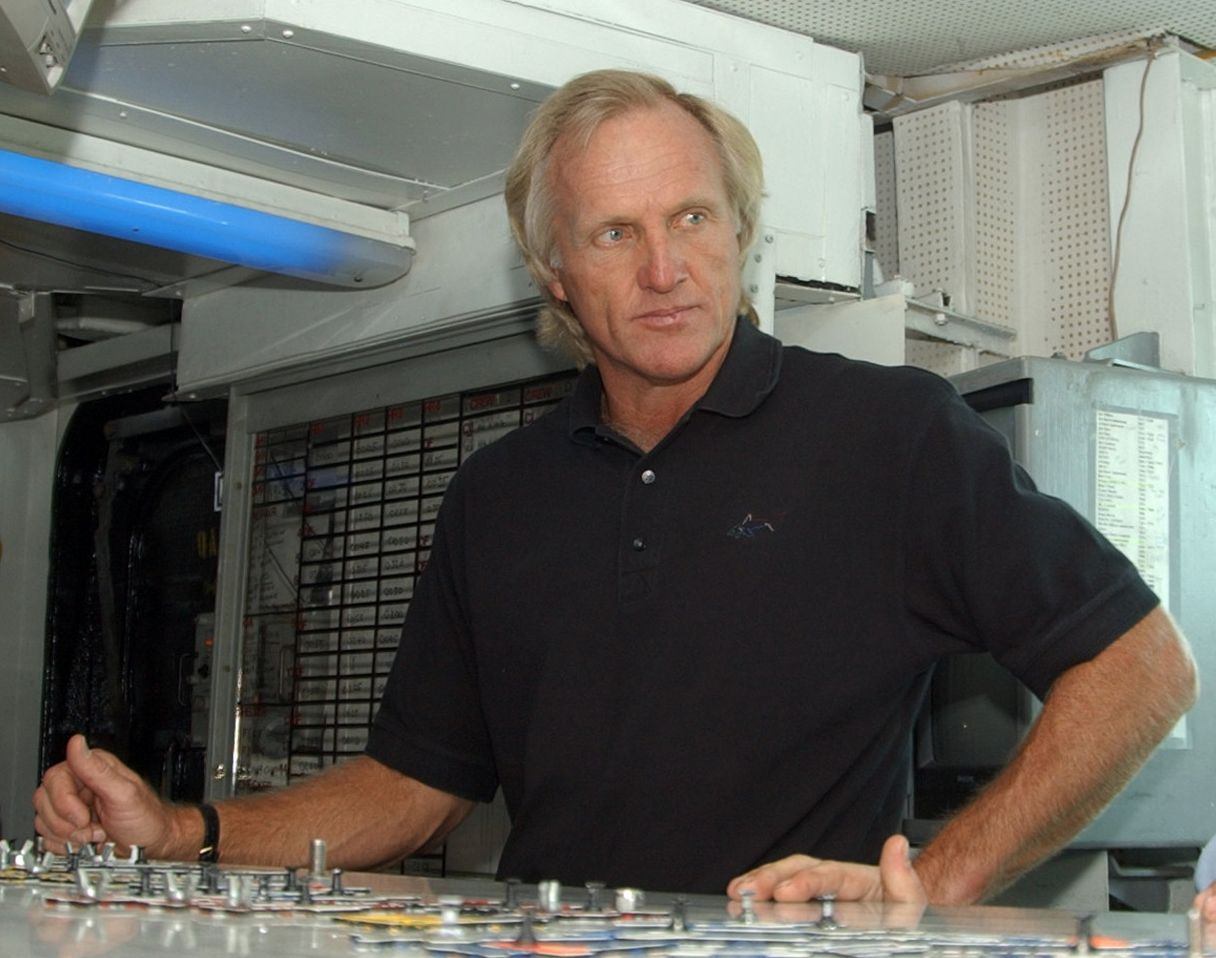 professional golfer Greg Norman during a visit to the aircraft carrier USS John F. Kennedy (CV 67)